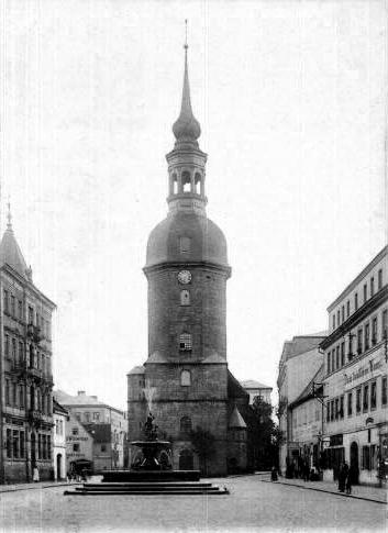 This image shows the marketplace with the St.-Johanniskirche in Bad Schandau around 1900. The church was built in the 18. century.